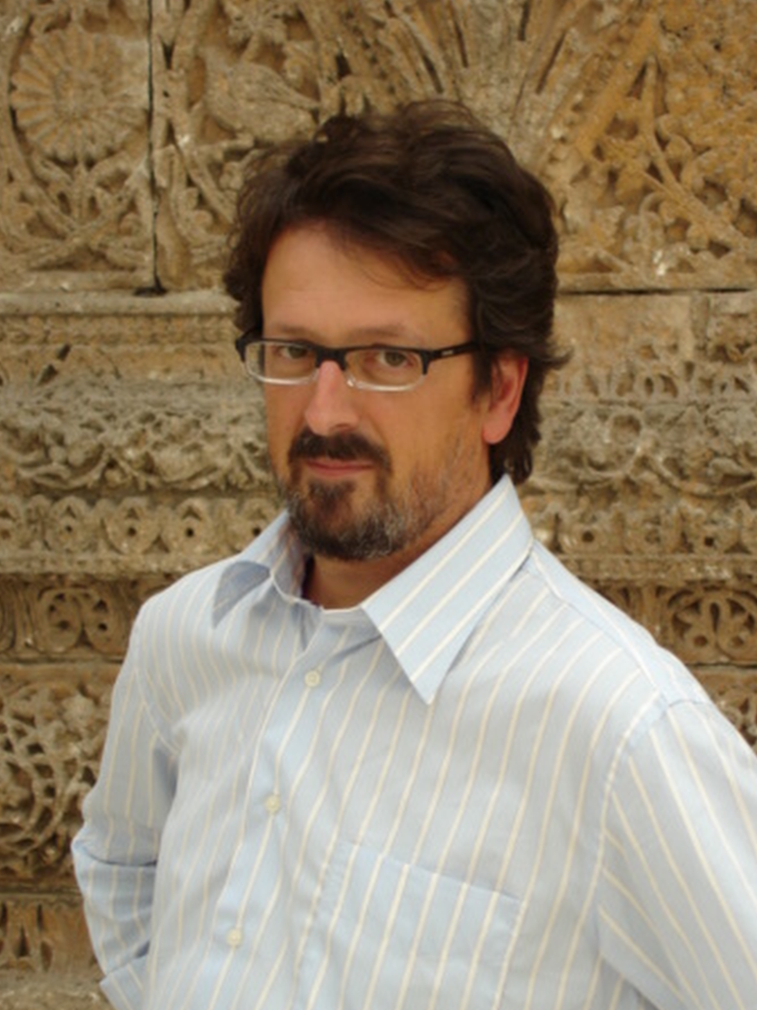 Writers of Greece